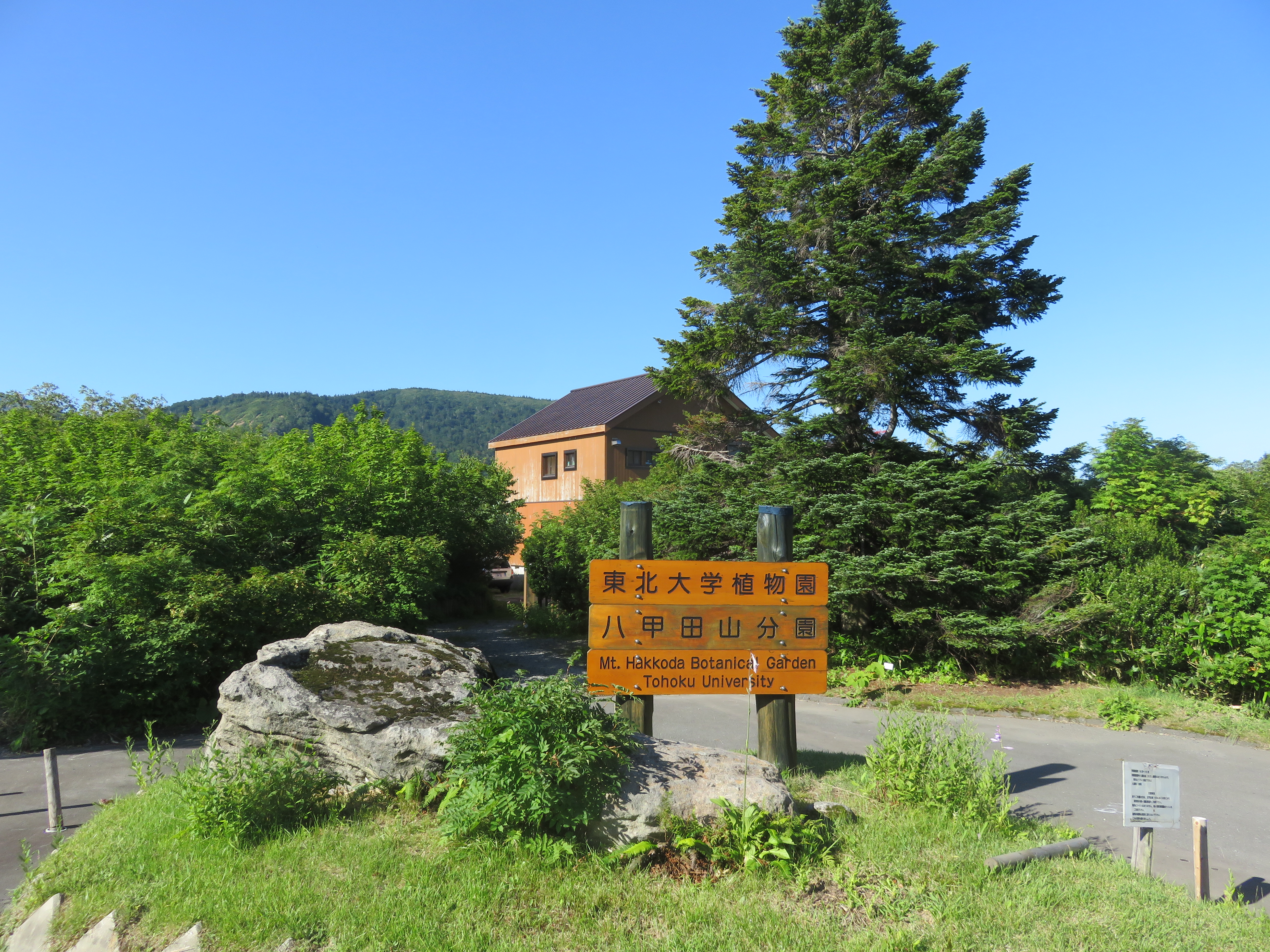 Hakkoda Botanical Garden, Tohoku University, Japan